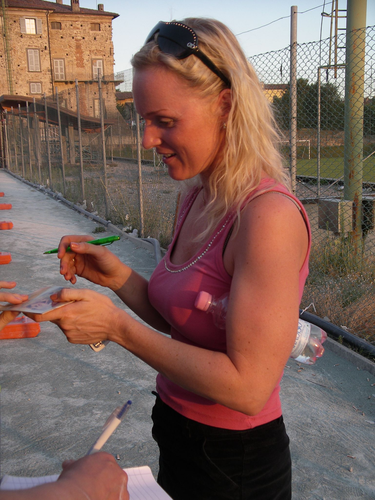 Liv Kristine, lead singer of Leaves' Eyes, signing autographs at Adro Rock Fest